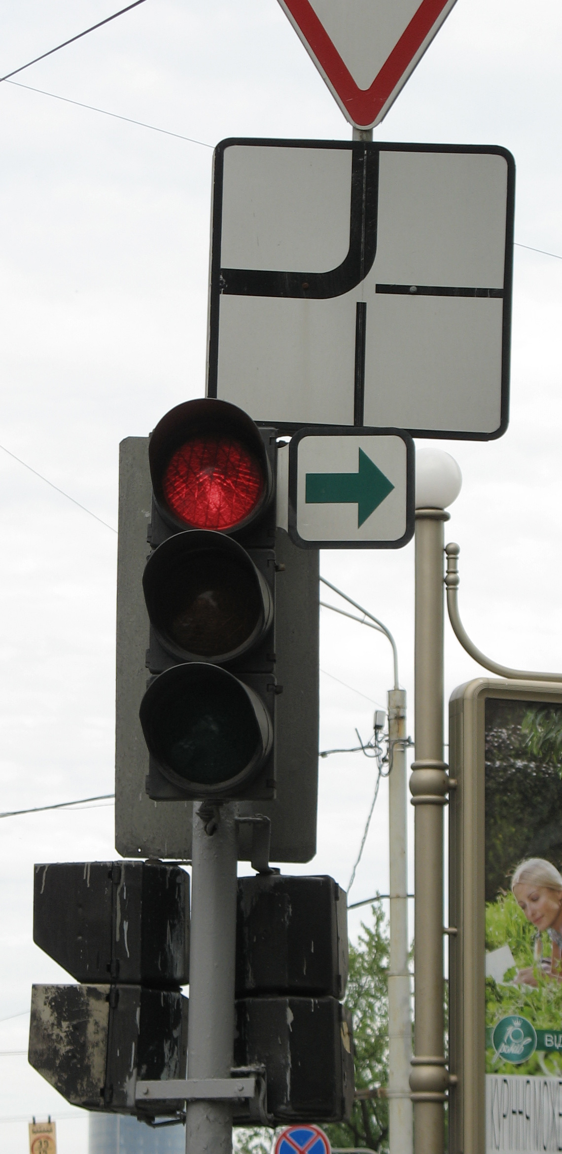 Traffic light with a green right sign. Kiev, 2008